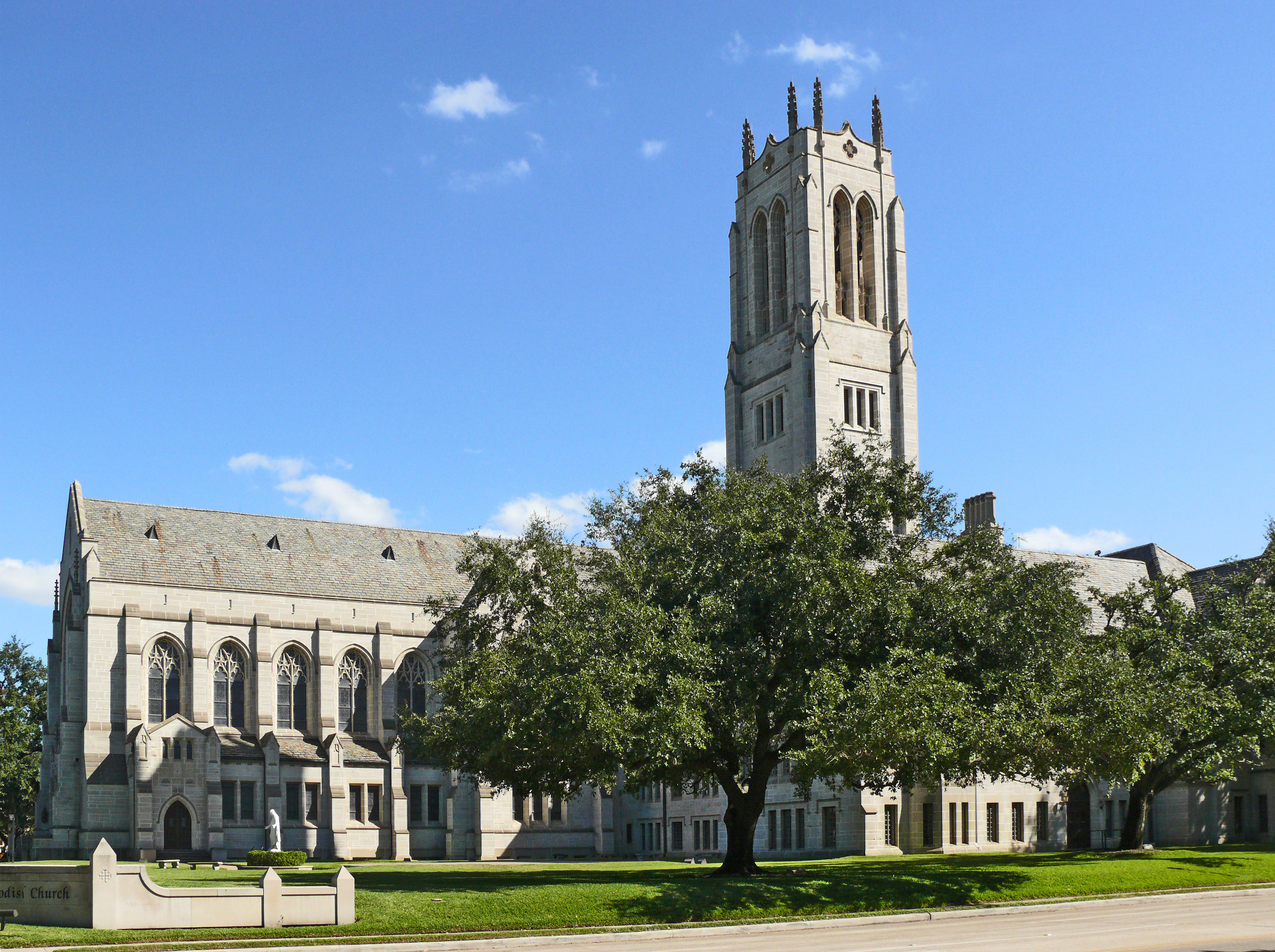 At the beginning of the 20th century, members of Houston’s Methodist community worked toward organizing a new congregation on what was then the burgeoning south end of town. In December 1905, individuals met at the J.O. Ross family home and held Christmas Eve services at the city auditorium. The congregation officially organized on January 14, 1906 with 153 charter members. Bishop Joseph Key preached the first sermon and suggested the congregation adopt St. Paul’s as its name. The Ross family gave lots at the corner of Milam and McGowen streets for a new building. Designed by R.D. Steele and consecrated in January 1909. The structure reflected a Grecian design with a dome reminiscent of Byzantine architecture. The church grew along with the city of Houston, and in the late 1920s, members launched a campaign to raise money for new facilities. Jesse H. Jones, Walter Fondren and J.M. West, Sr. each contributed $150,000, and the church hired noted architect Alfred C. Finn to design a new building at the corner of Main and Binz streets. The Neo-Gothic styling features a cruciform plan on a steel-frame structure with limestone cladding. Stained glass windows from the structure, and the impressive tower houses bells also brought from the church’s original sanctuary. St. Paul’s church members support an array of outreach, worship, education, mission, music and caring services to the community. At the turn of the 21st century, the church is a spiritual and social community center, as well as a long-standing Houston institution. Coordinates N29° 43.576 W95° 23.336